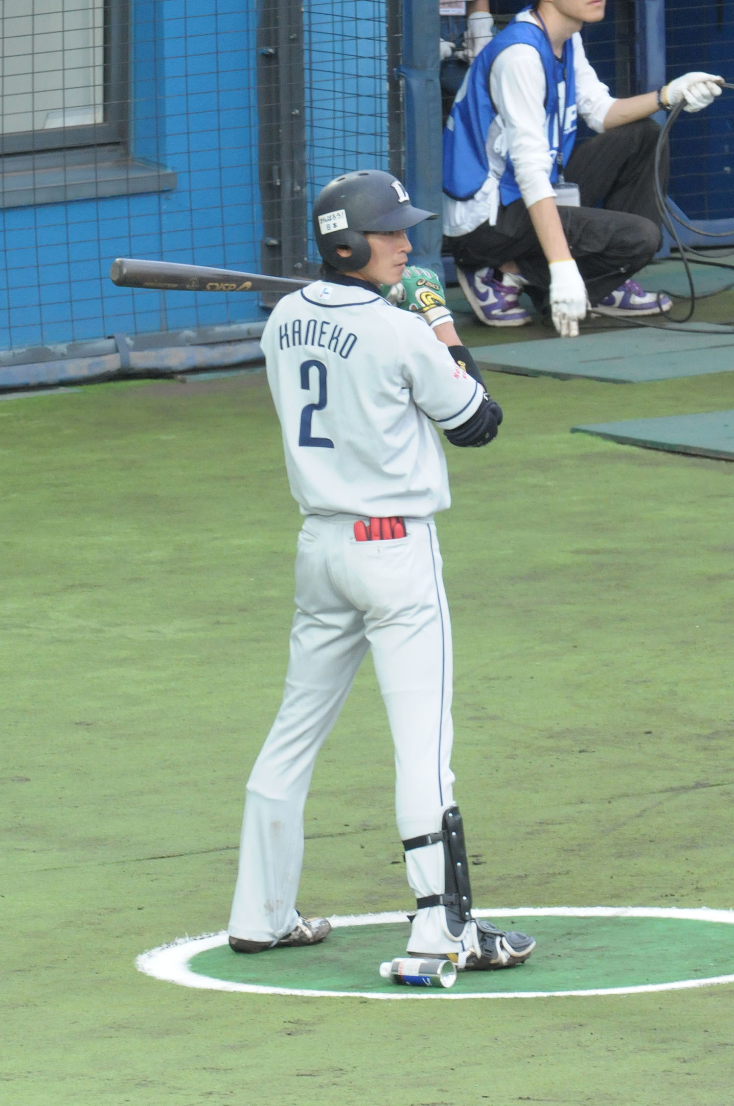 Yuji Kaneko, infielder of the Saitama Seibu Lions, at Akita Prefectural Baseball Stadium.